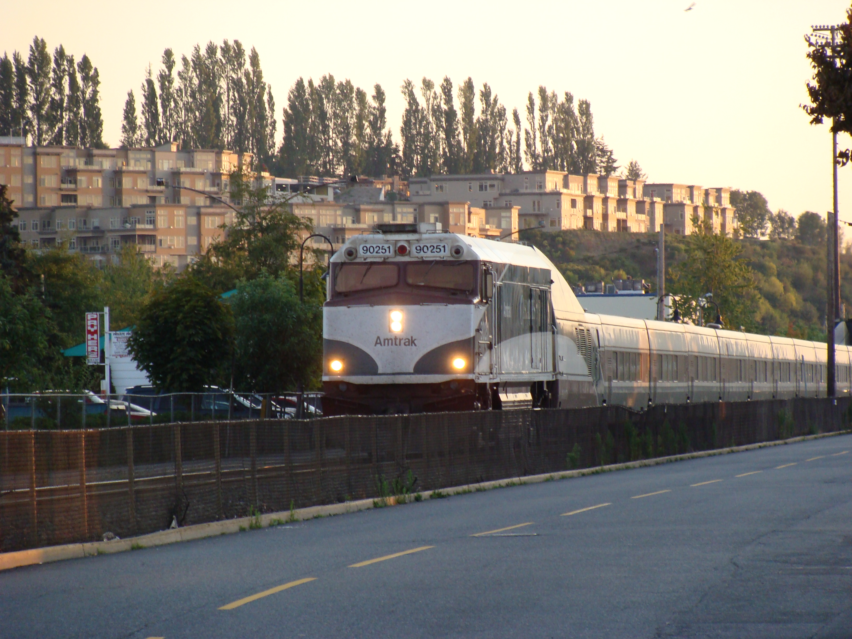 NPCU “Cabbage” on Amtrak Cascades